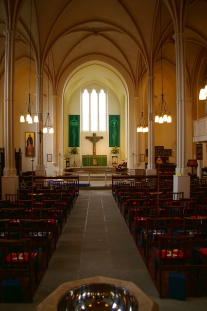 Interior of SS Mary & Giles' Church Only the tower of the medieval church survived the town fire of 1742. The nave was rebuilt in 1777 by the Warwick architect Francis Hiorne, and the tall chancel added in 1928 by C.G. Hare. Pevsner in 1960 wrote: "The pleasure of the church is inside. It is a hall church with tall wooden piers of eight very thin clustered shafts carrying plaster rib vaults."